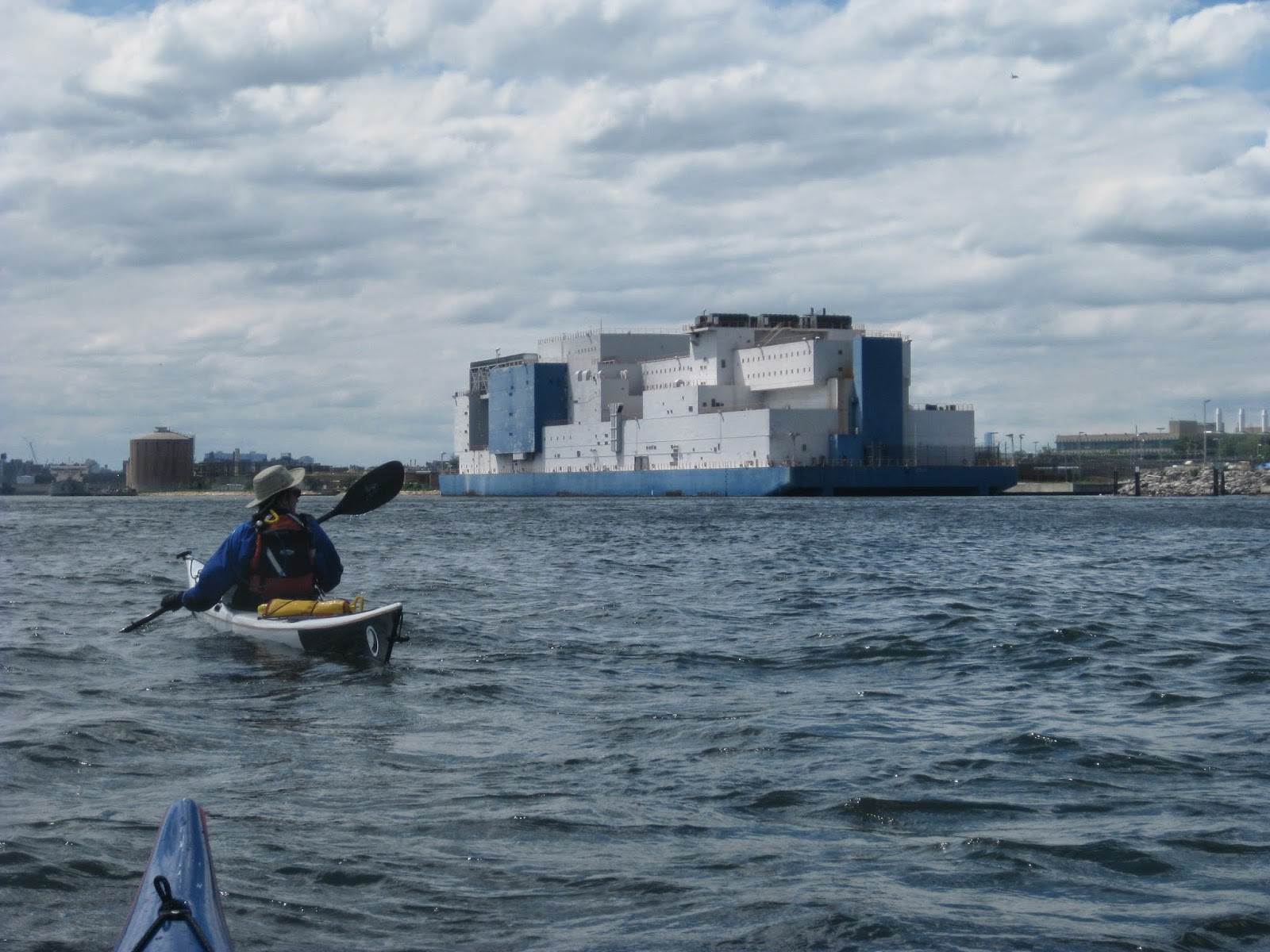 The Vernon C Bain Correction Center prison barge from a kayak